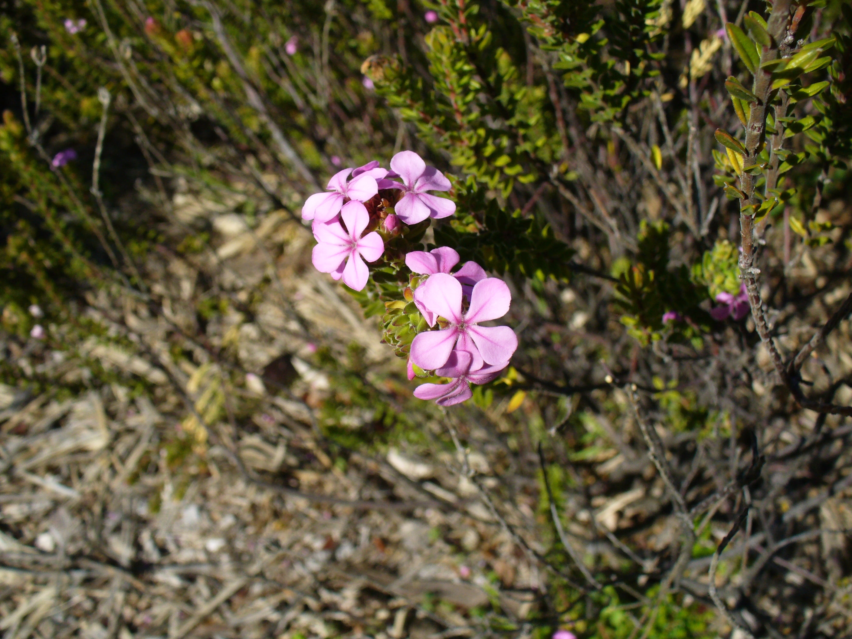 Kirstenbosch Gardens Cape Town